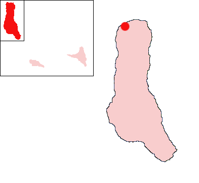 Nkourani, Grande Comore, Comoros Location Map; created with the GIMP. Made by User:Acntx.